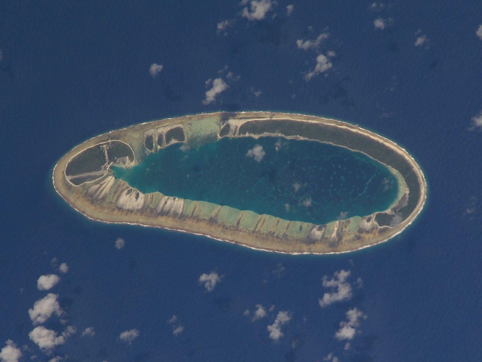 NASA Astronaut Image of Vahitahi Atoll (Tuamotu Archipelago, French Polynesia) in the Pacific Ocean